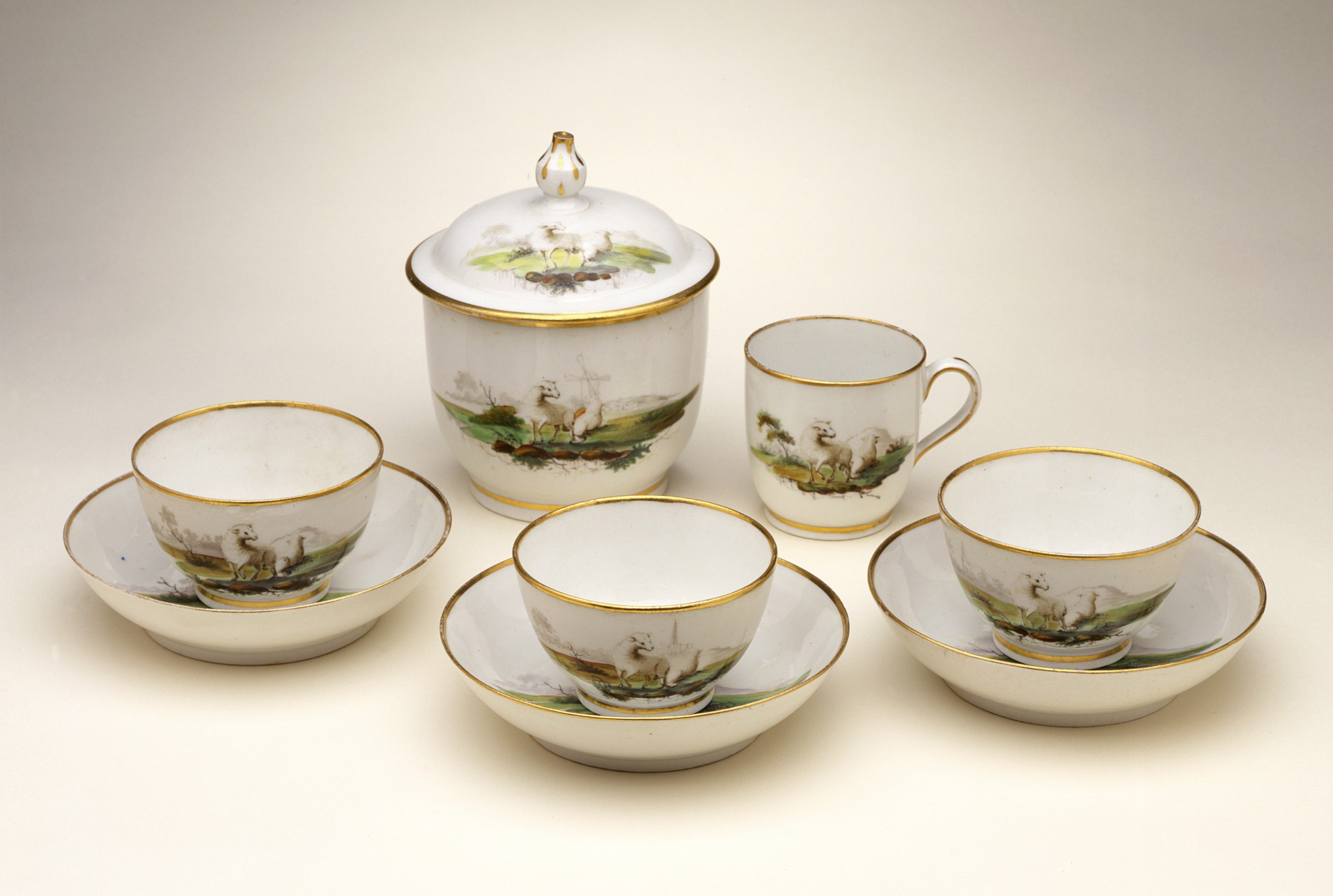 England, 1796 Furnishings; Serviceware Porcelain, gilding Gift of Mr. Walter T. Wells (55.101.17.1-.5) Decorative Arts and Design